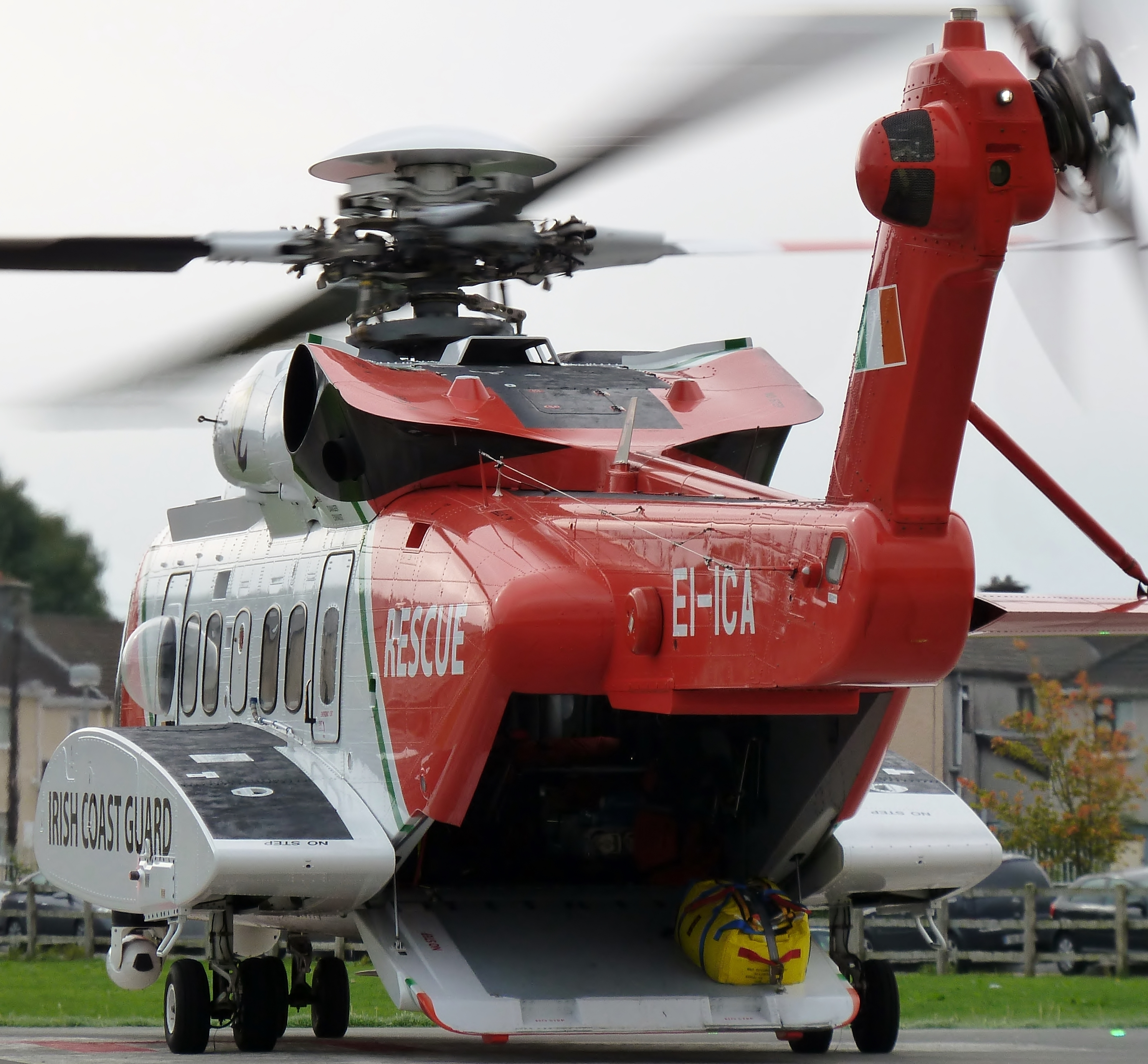 RESCUE118, EI-ICA, Sikorsky S92, Irish Coast Guard, at UCH Galway, 24/09/13.